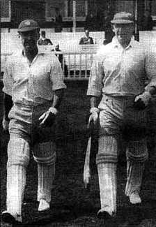 Two cricket players from Lomas Athletic Club, head to the field.